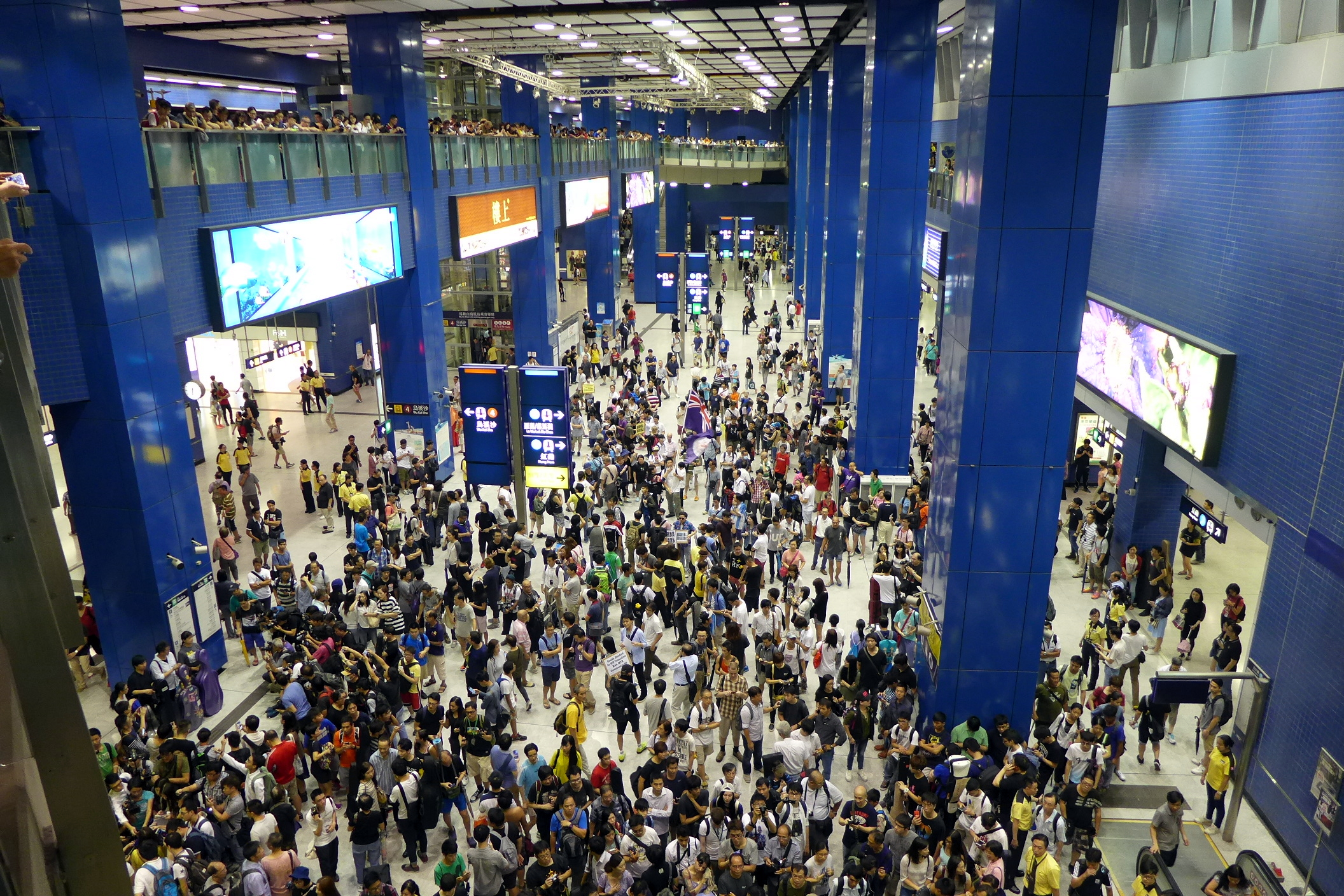 Tai Wai Station Protest Overview